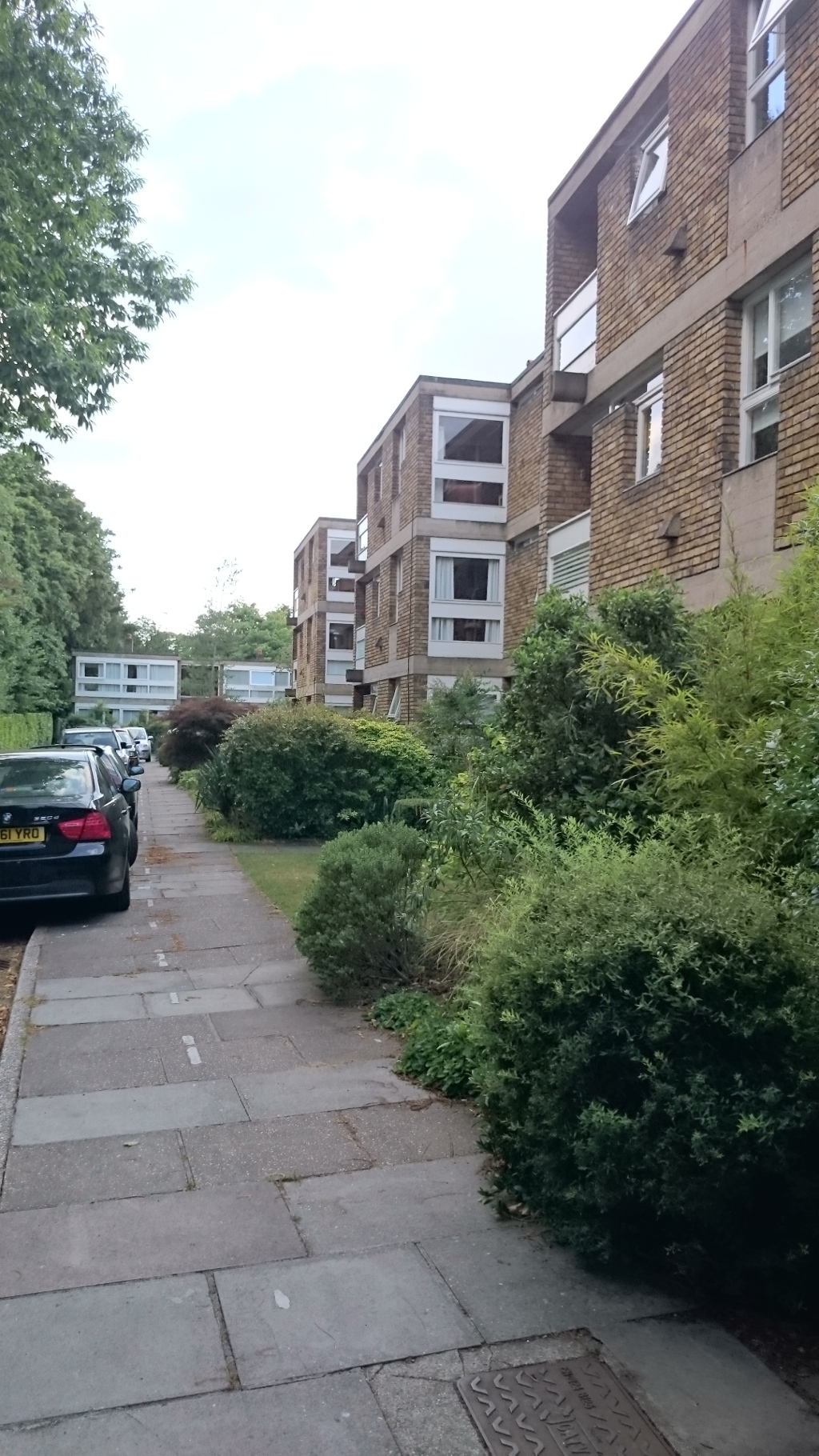 Langham House Close, Ham Common, viewed from the west with the main block designed by James Stirling to the right and one of two two-storey pavilion blocks designed by James Gowan in the distance.